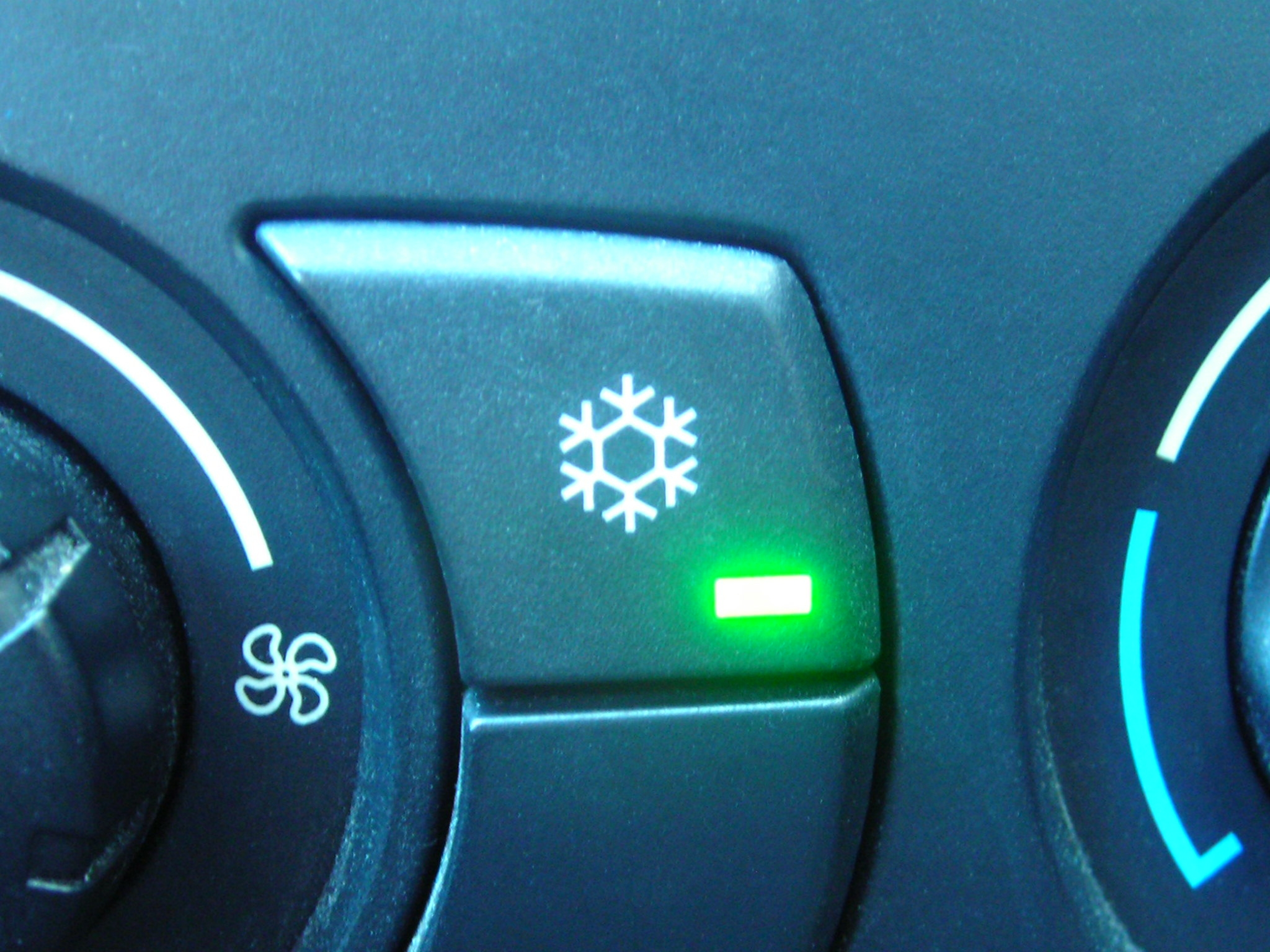 'Symbol of Air conditioning in a BMW car (switch)